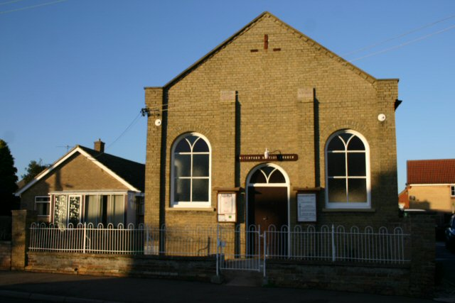 Witchford Baptist Church Situated on the north side of the main road through the village.